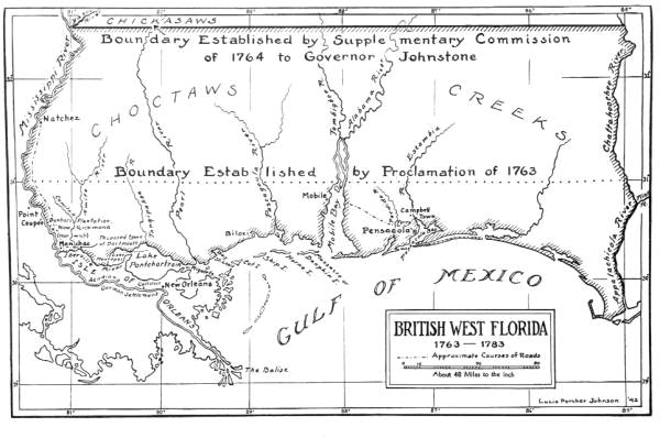 Map of West Florida. 1942(?) Black & white photoprint, 8 x 10 in. State Archives of Florida, Florida Memory. , accessed 29 January 2016. See British West Florida